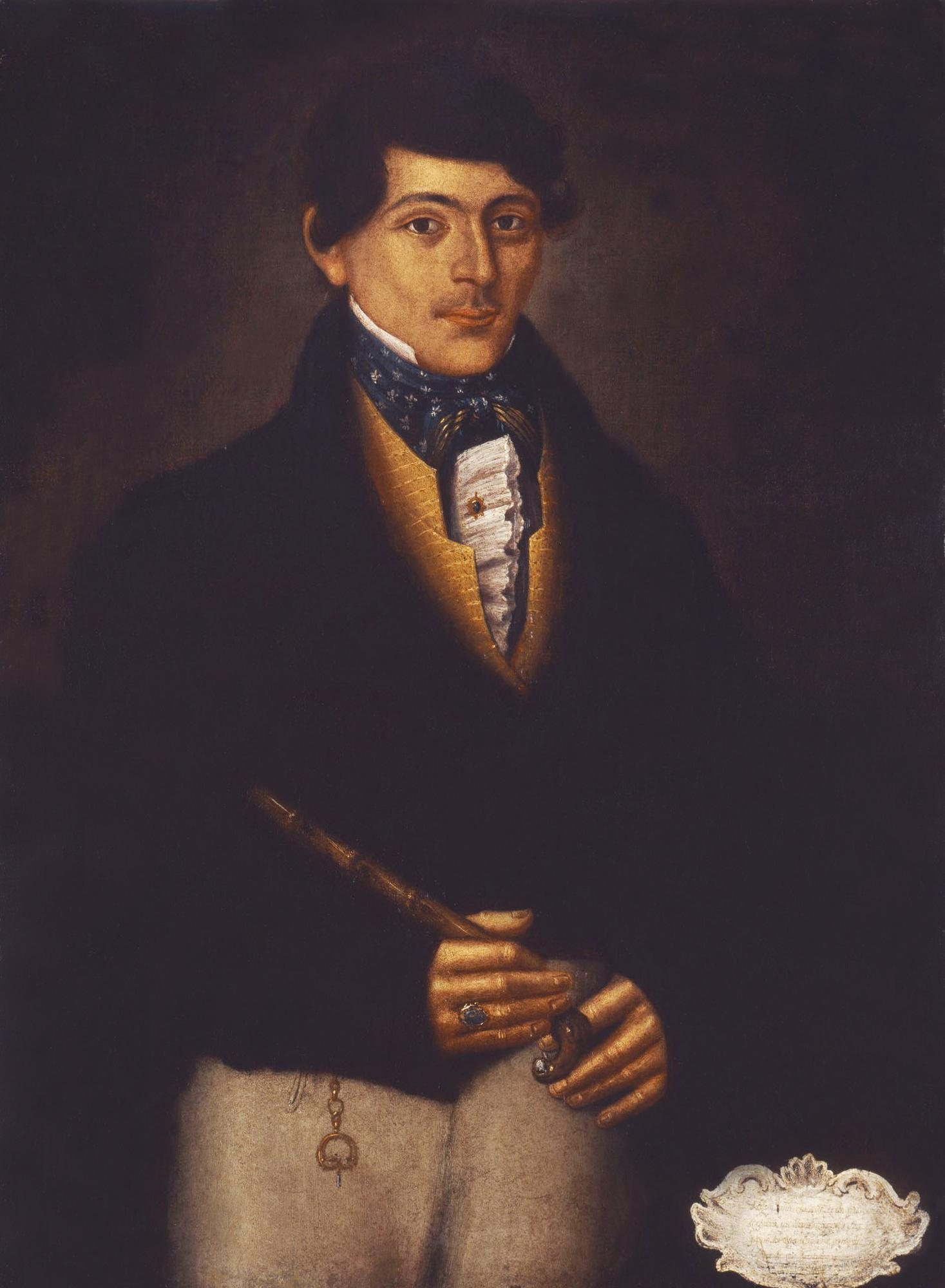 Portrait of Kyriakos Xoraphas